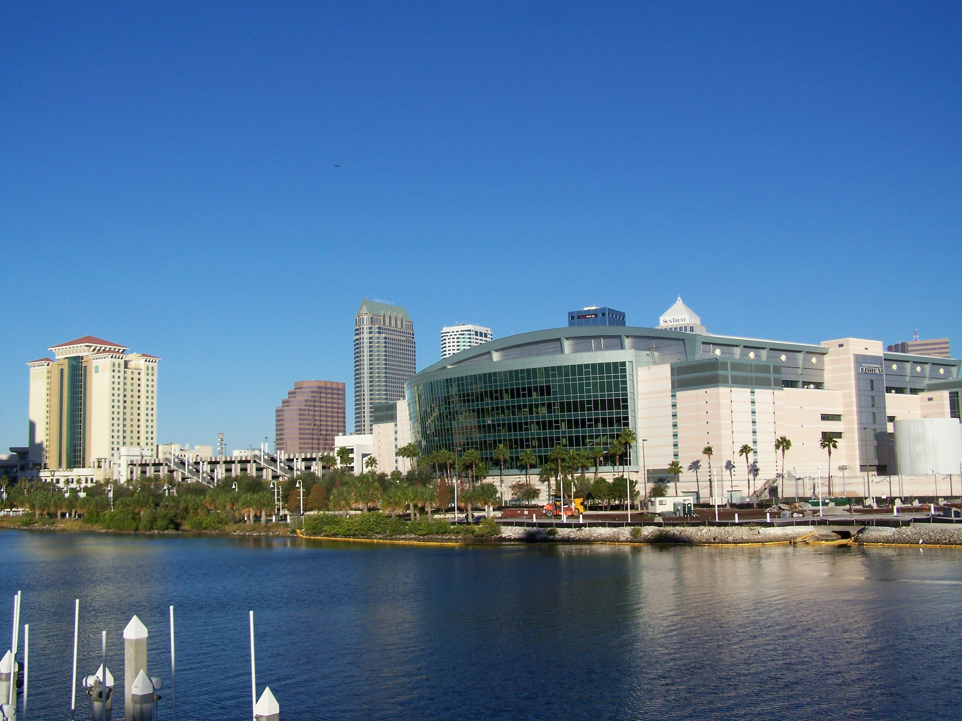 St. Pete Times Forum in Tampa with Garrison Channel, taken from Beneficial Drive. At the left, an Embassy Suites Hotel.